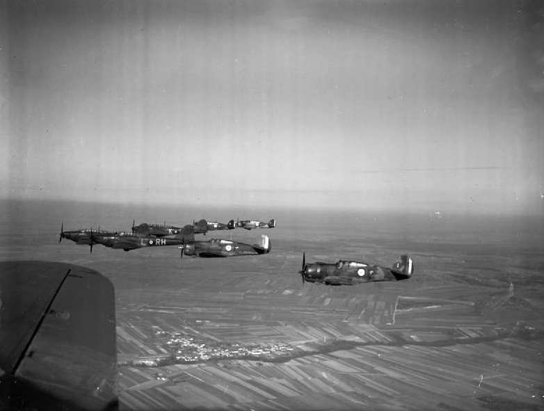 Fairey Battles of No. 88 Squadron RAF based at Mourmelon-le-Grand, fly in formation with Curtiss Hawk 75s of 1e escadrille GC 1/2 of the French Air Force.